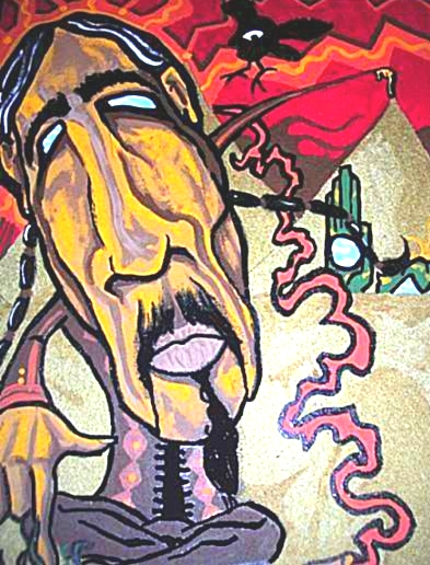 "Don Juan Matus" by Rayjmaraca a painting done in tribute to the man Don Juan Matus from the book "The Teachings of Don Juan: A Yaqui Way of Knowledge" by Carlos Castaneda.